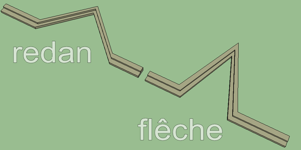 Redan Fleché example